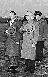 Carlos Prío Socarrás (left), President of Cuba from 1948 - 1952, with US president Harry S. Truman in Washington, June 12, 1948.